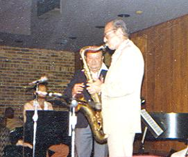 Al Cohn at the Village Jazz Lounge